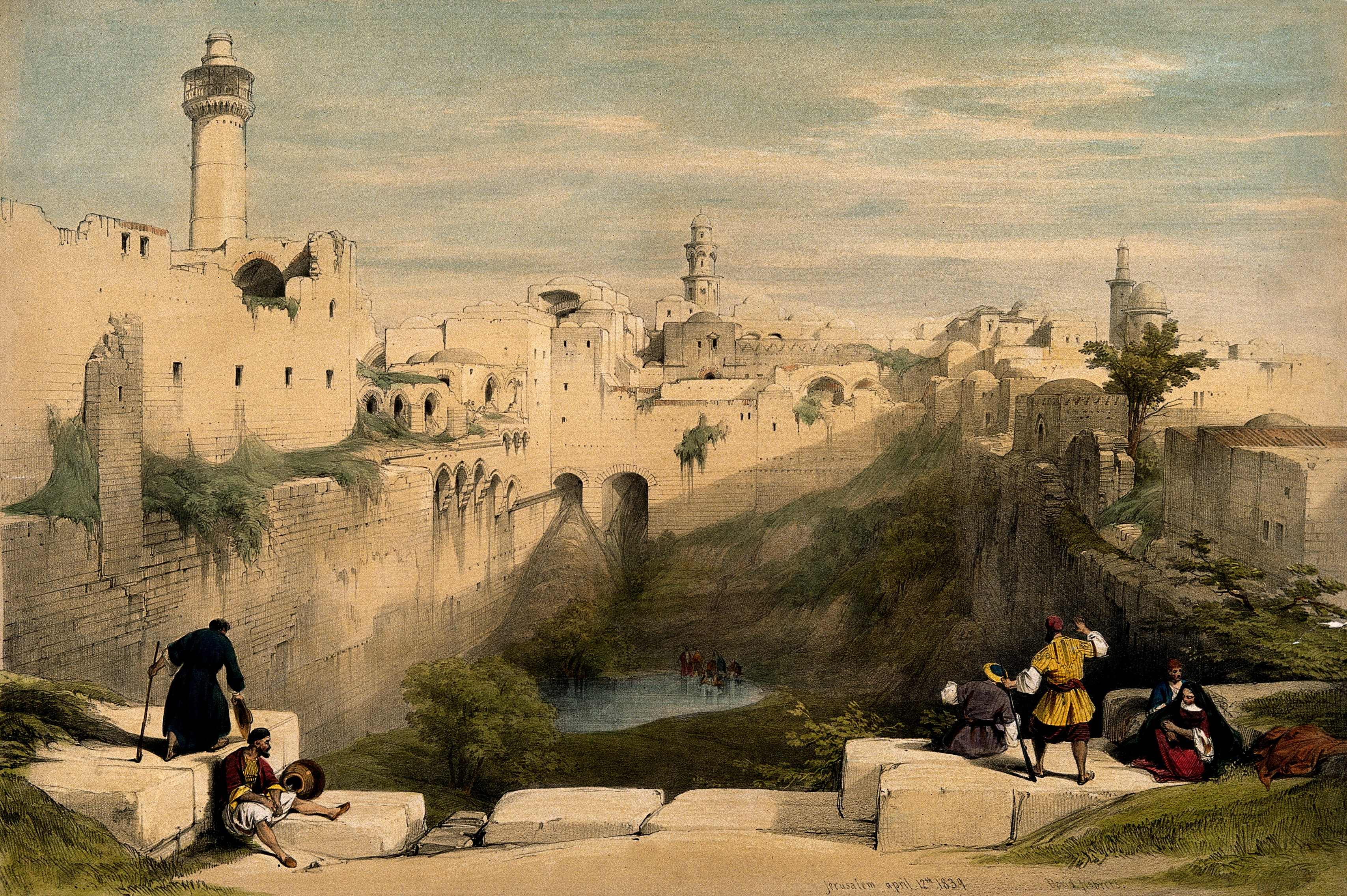 The Pool of Bethesda, Jerusalem Coloured lithograph by D. Roberts, 1839. Iconographic Collections Keywords: David Roberts